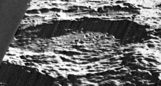 Oblique view of Minnaert, on the far side of the moon, facing west.